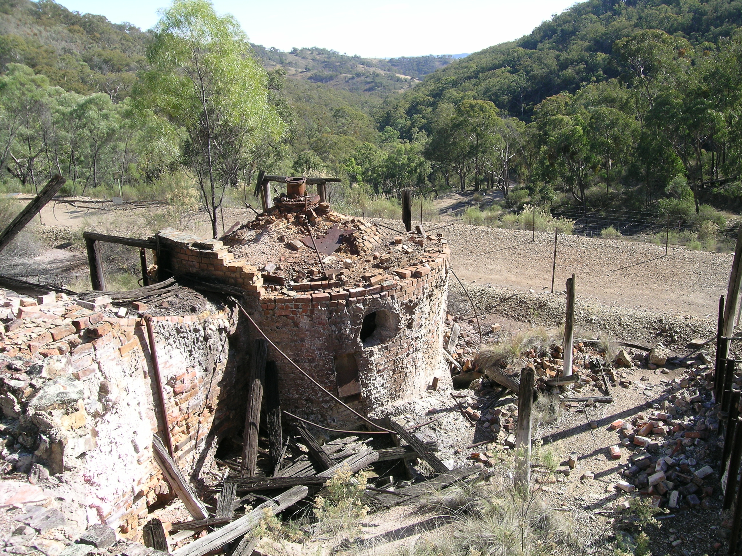 Part of the remains of arsenic processing plant, Ottery mine, Tent Hill, NSW. Arsenic compounds can be seen coating the surface of the brickwork.